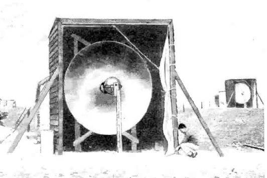 Parabolic antennas used in a 1931 experimental microwave relay link across the English Channel, one of the earliest experiments in microwave communication. The 10 foot (3 m) diameter dishes transmitted voice, telegraphy, and facsimile images over 1.7 GHz (18 cm wavelength) bidirectional microwave beams 40 miles between Dover, England and Calais, France. The microwaves were generated by a miniature Barkhausen-Kurz tube located at the focus of the transmitter dish behind the hemispherical shroud visible in the center; an identical tube at the receiver amplified the received signal. The radiated power was about one half watt. In this image the dish in the foreground is the transmitter, while the receiver dish in the background was located behind the transmitter to avoid interference. The demonstration was sponsored jointly by the International Telephone and Telegraph Company (ITT) and the Laboratoire du Materiel Telephonique of Paris, managed by G. H. Nash for the English and E. M. Deloraine for the French. Although this was planned as the prototype for a commercial microwave system, the sponsors found they could not compete with cheap underwater telephone cables. A commercial 300 MHz link was built in 1935, the first microwave relay system. Note man next to foreground antenna for scale. Caption: "Two similar parabolic mirrors serve as transmitter and receiver at each end of the cross-Channel link, the receiver placed back of the transmitter to avoid interference."